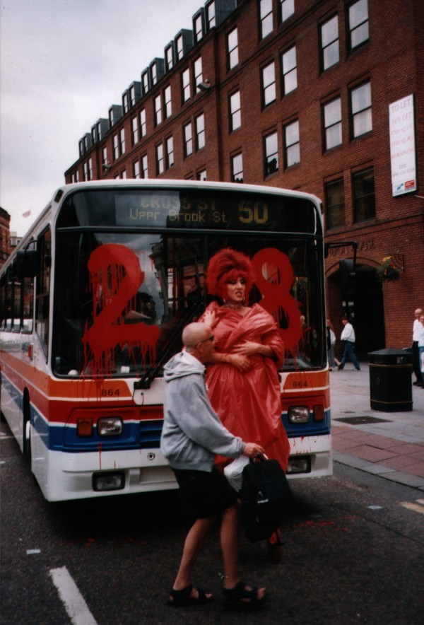 A drag queen in front of a bus operated by the Stagecoach company in Albert Square, Manchester, UK, during a Stonewall rally in the square for repeal of Section 28 of the Local Government Act 1988. In protest at Stagecoach's owner Brian Souter's high profile support of the legislation, activists have stopped the bus and daubed "28" on its windscreen in huge red characters, which they subsequently washed off in order to avoid arrest for criminal damage.